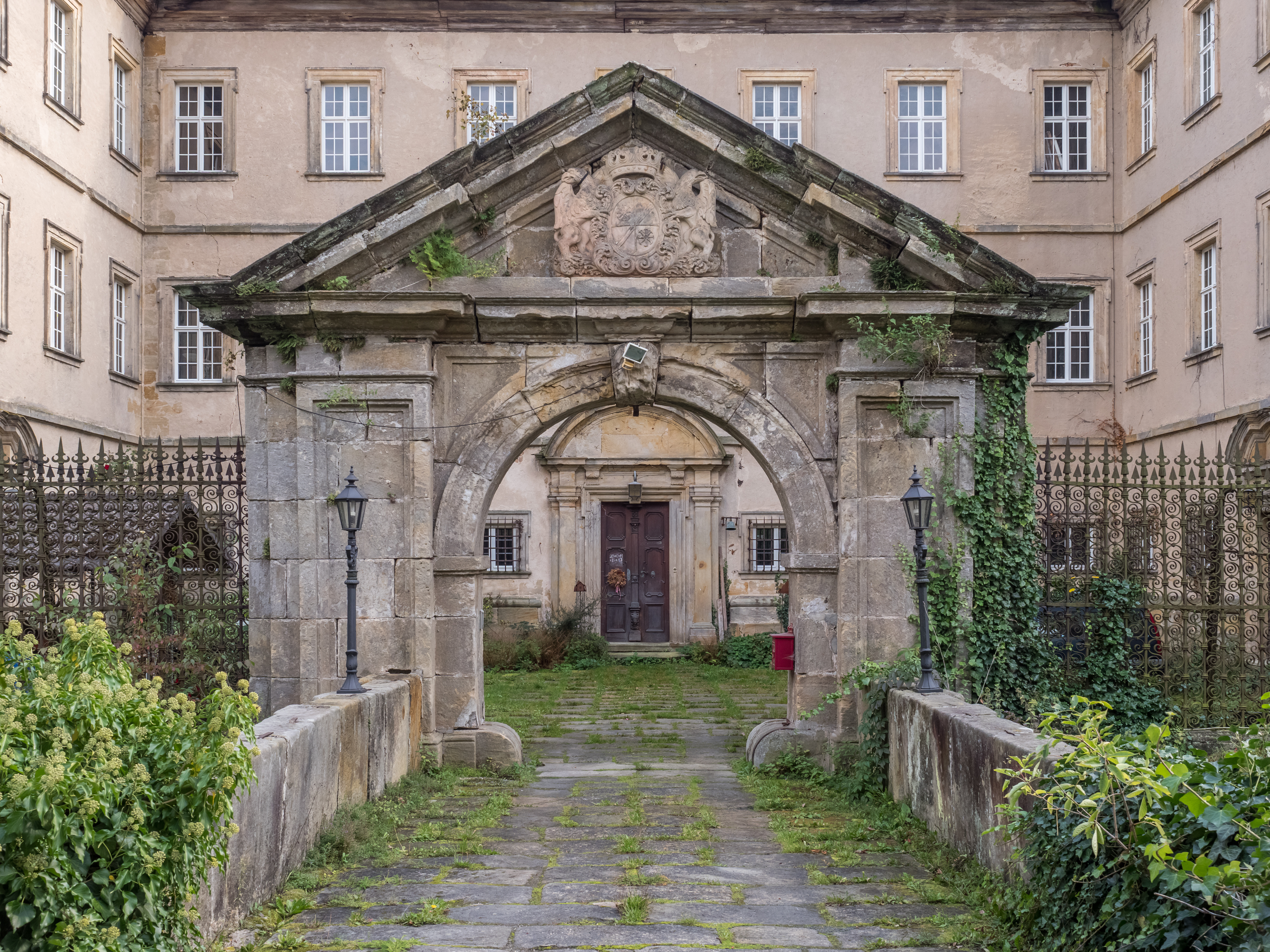 Gereuth castle